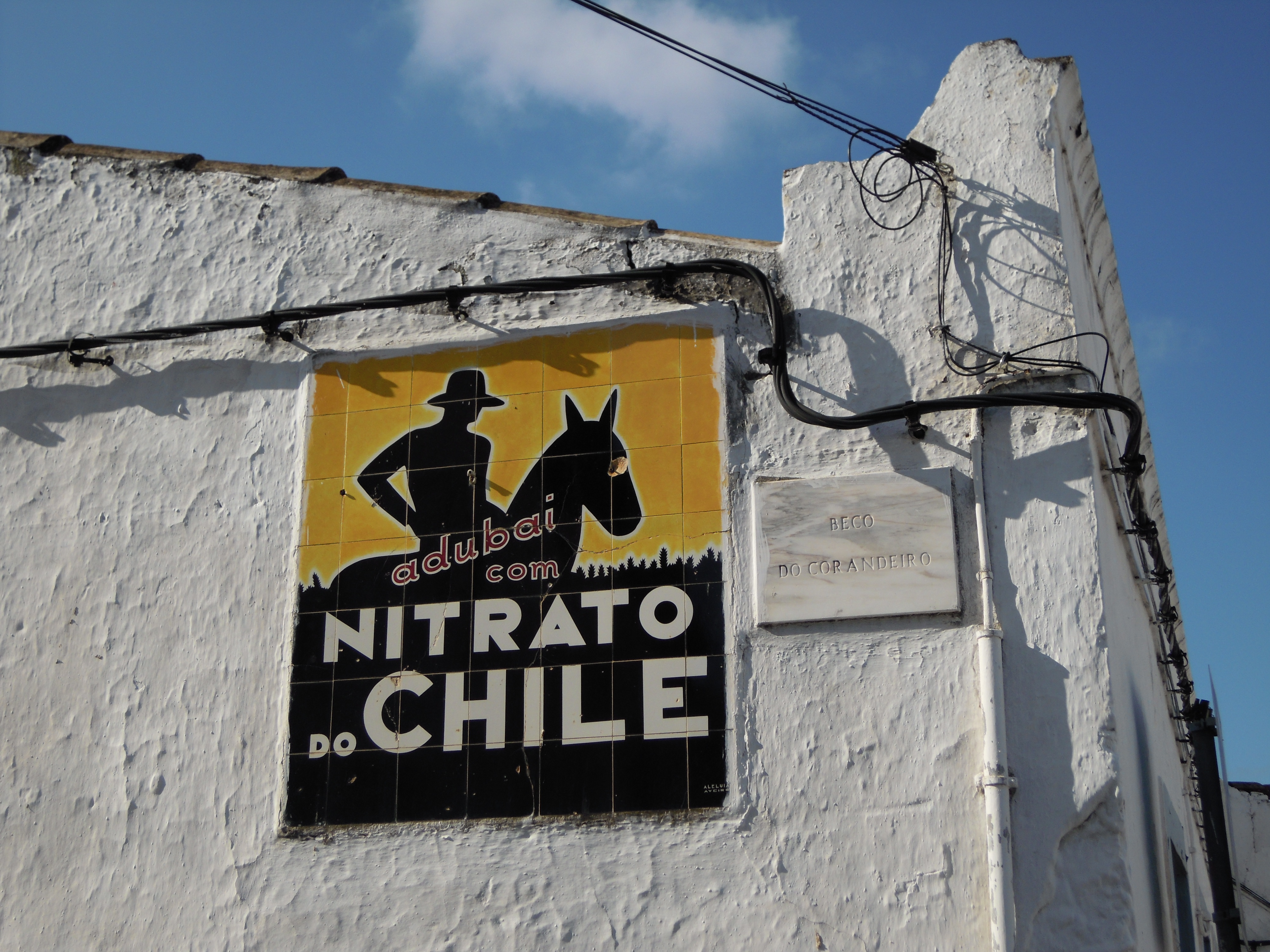 An old advertisment for a Sodium Nitrate product on the corner of Rua Primeiro de Maio with Beco do Curandeiro (corandeiro) in the village of Santa Catarina da Fonte de Bispo, Algarve, Portugal